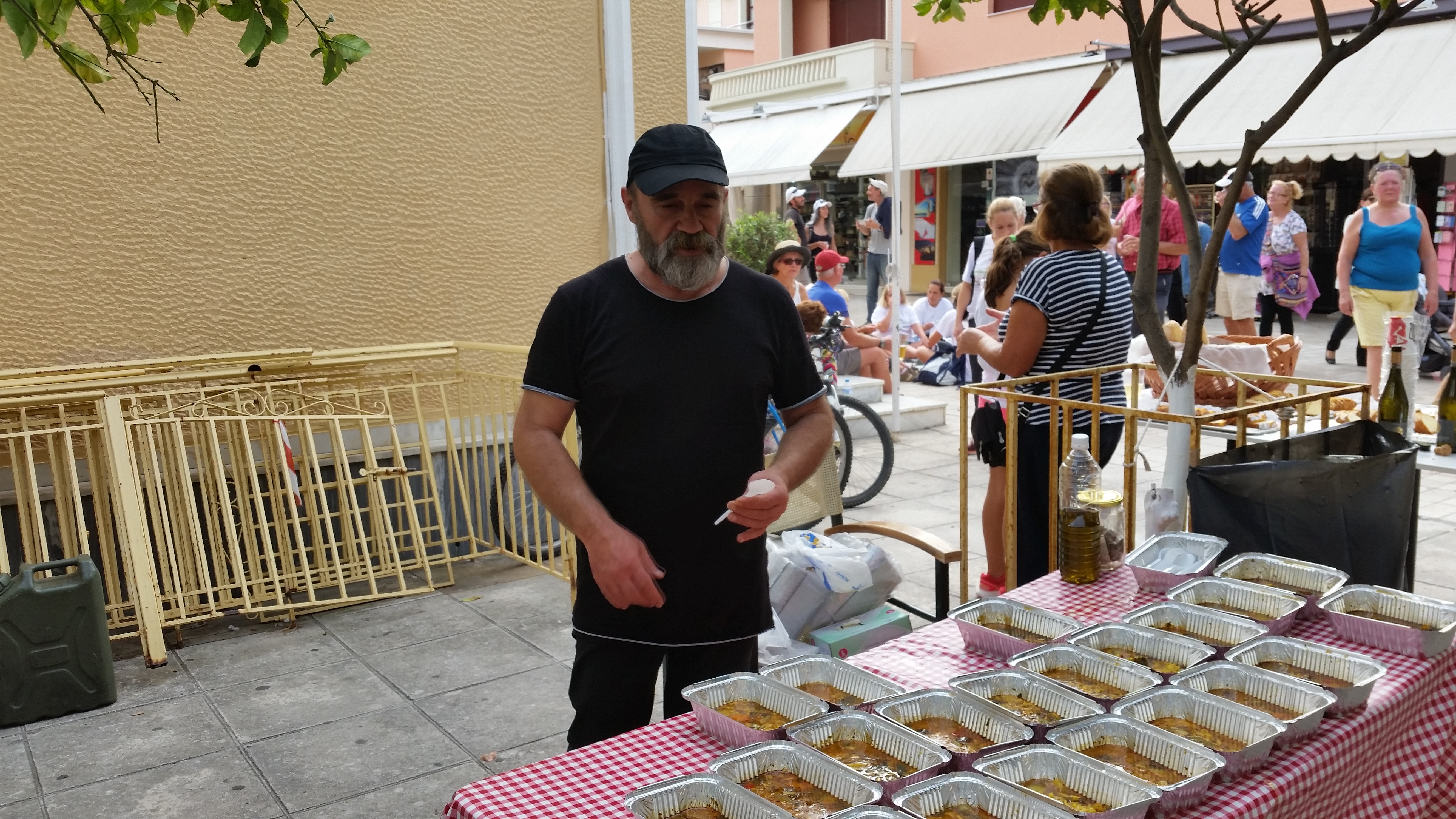 "O Allos Anthropos" (The Other Human) Konstantinos Polychronopoulos in Argostoli, Kefalonia, after "Kefalonia Big Walk 2016". Part of the charity earnings were donated to his "social kitchen" initiative.